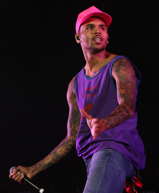 Chris Brown Performs at Supafest 3 Sydney, Australia 2012.